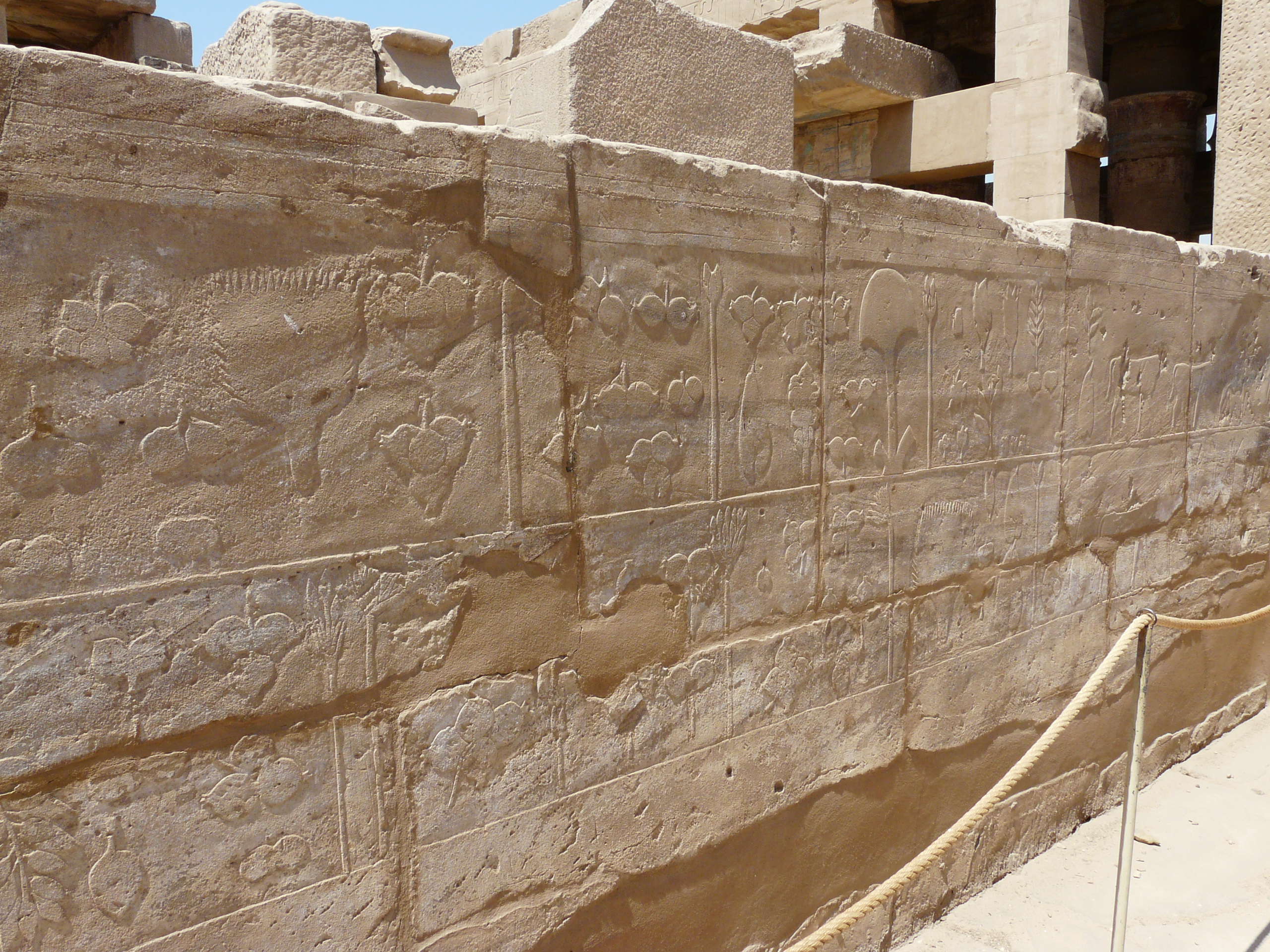 Botanical garden of Thutmosis III. Festival Hall of Thutmose III, in the Precinct of Amun-Re, Karnak